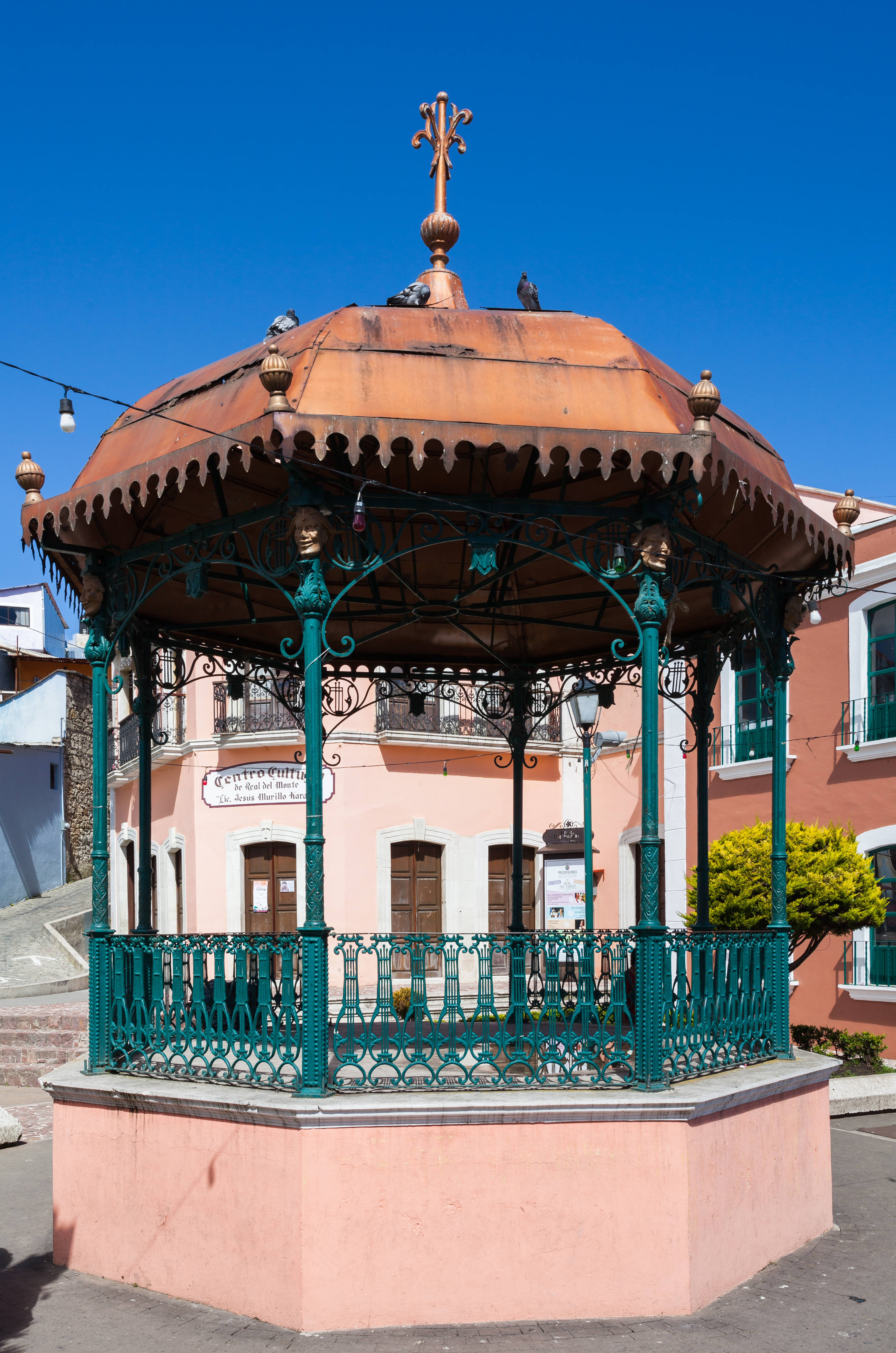 Main square, Real del Monte, Hidalgo, Mexico